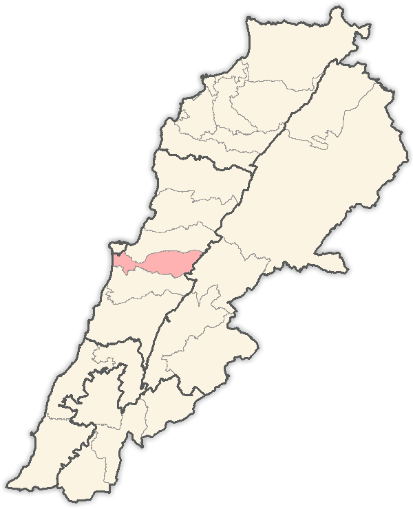 Map of districts in Lebanon, highlighting the Baabda District